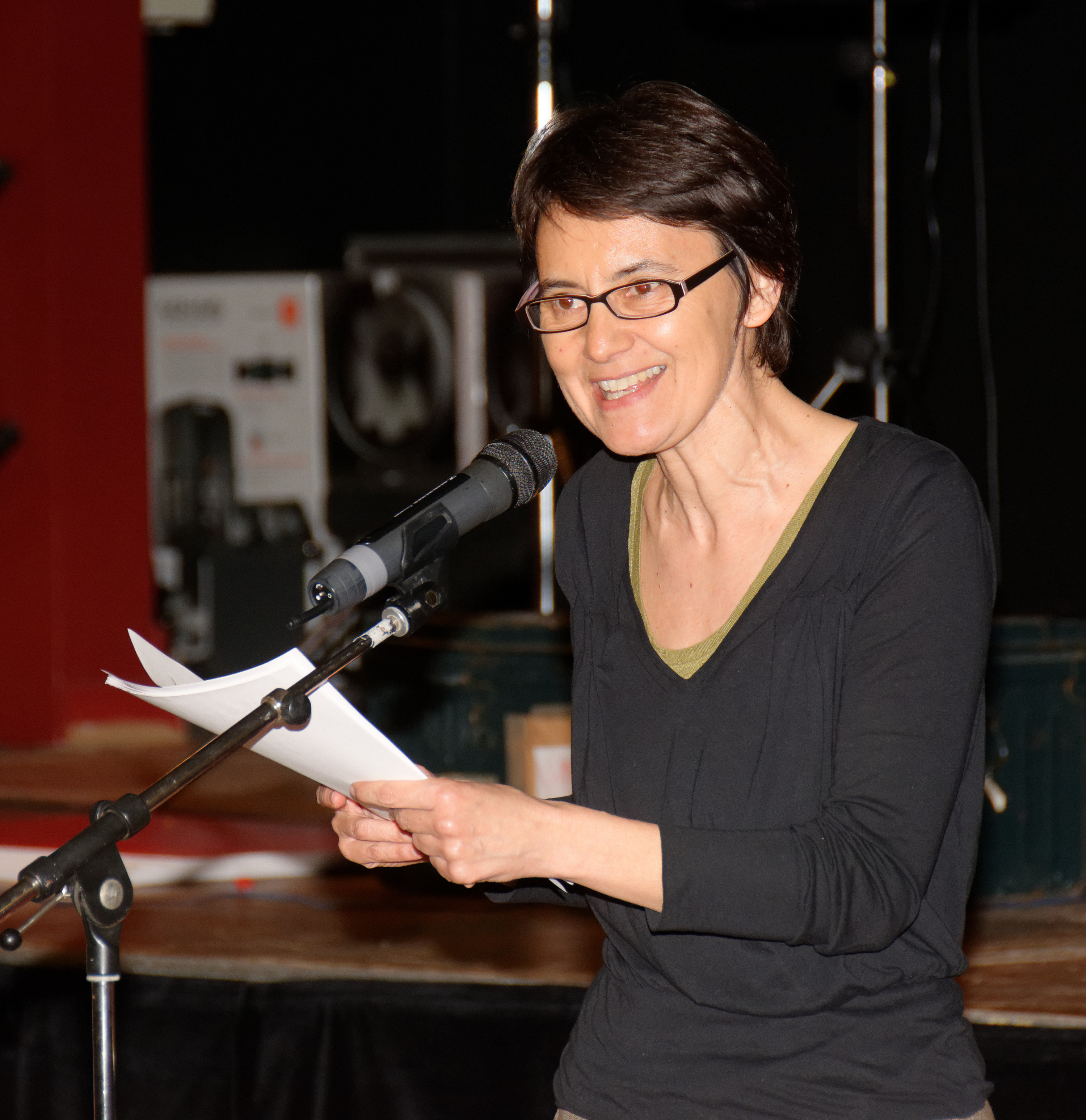 Personality rights warningAlthough this work is freely licensed or in the public domain, the person(s) shown may have rights that legally restrict certain re-uses unless those depicted consent to such uses. In these cases, a model release or other evidence of consent could protect you from infringement claims.